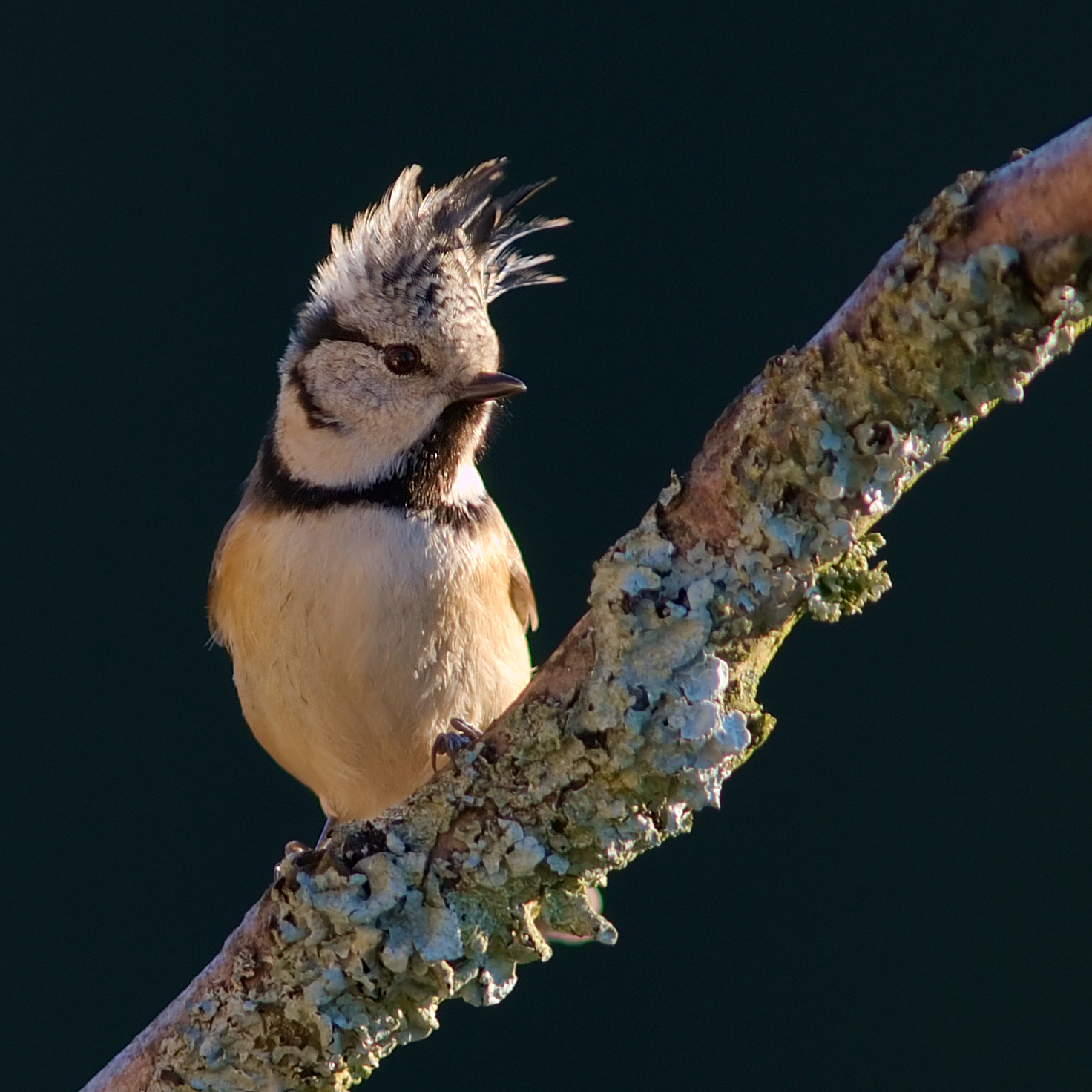 Crested Tit